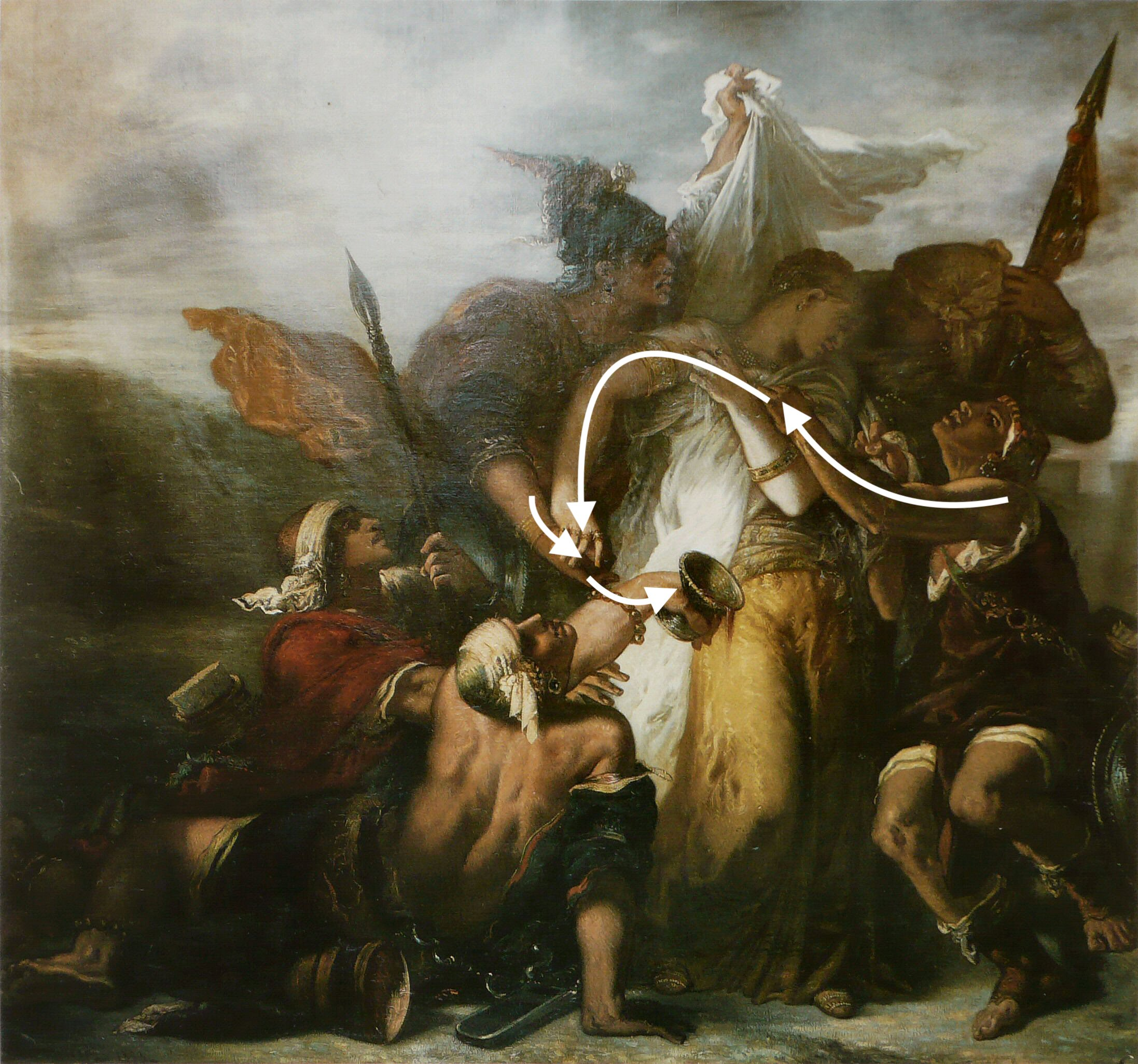 analysis of the movement int the painting